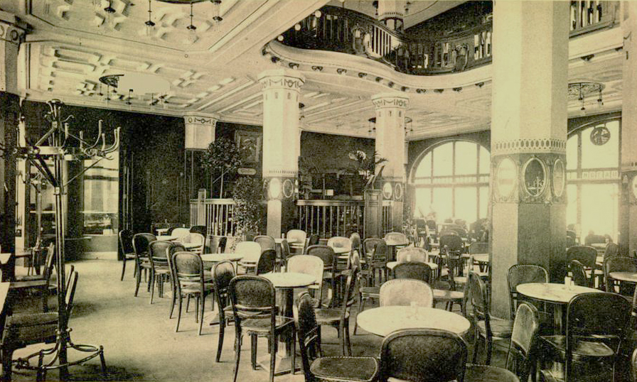 Café Woerz and Billards-Academie the Nollendorfplatz, Berlin.